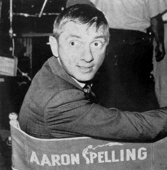 Photo of Aaron Spelling from a print ad for Trans World Airlines (TWA). Spelling was endorsing the airline's first class service.